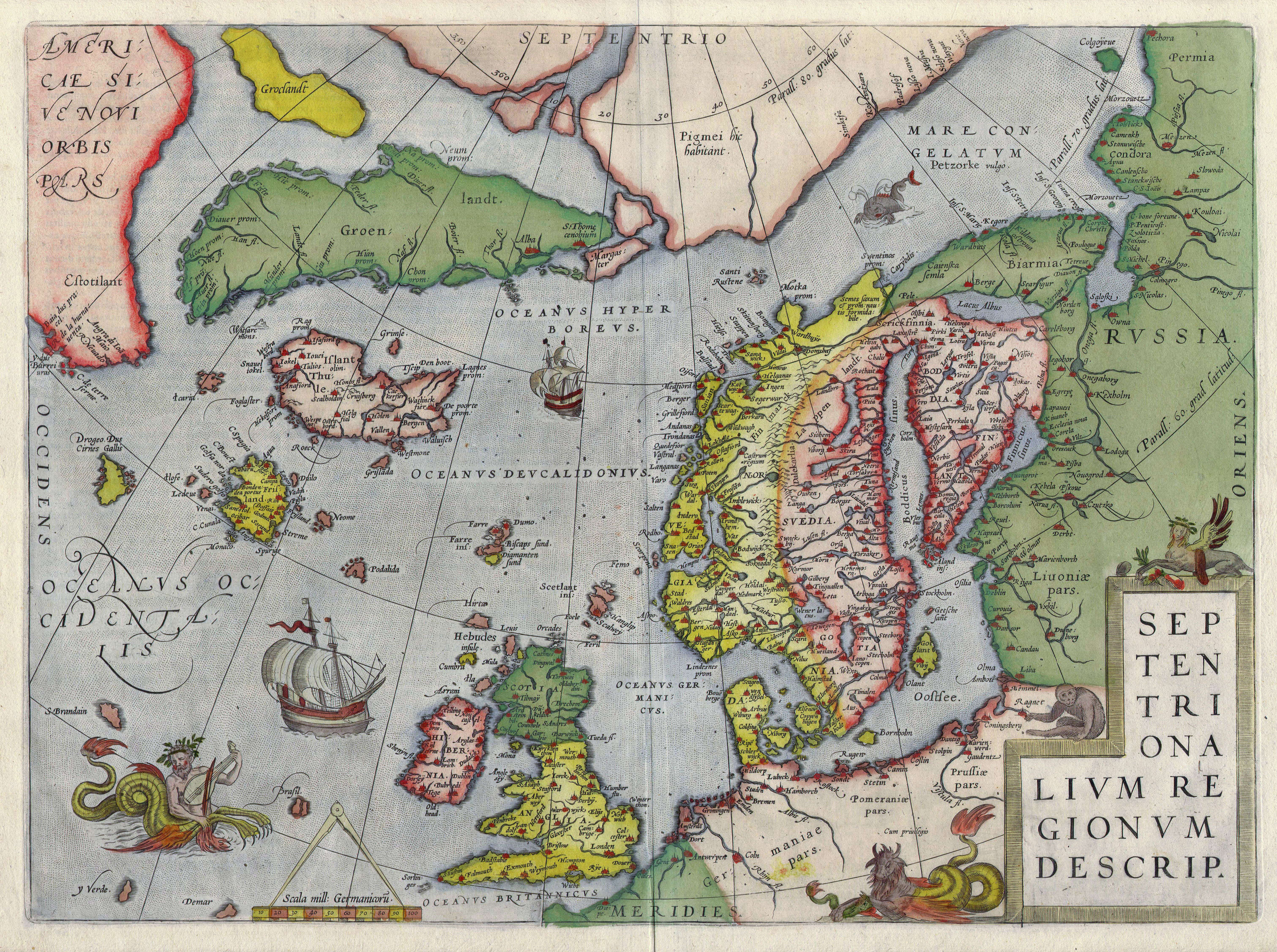 Theatrum Orbis Terrarum